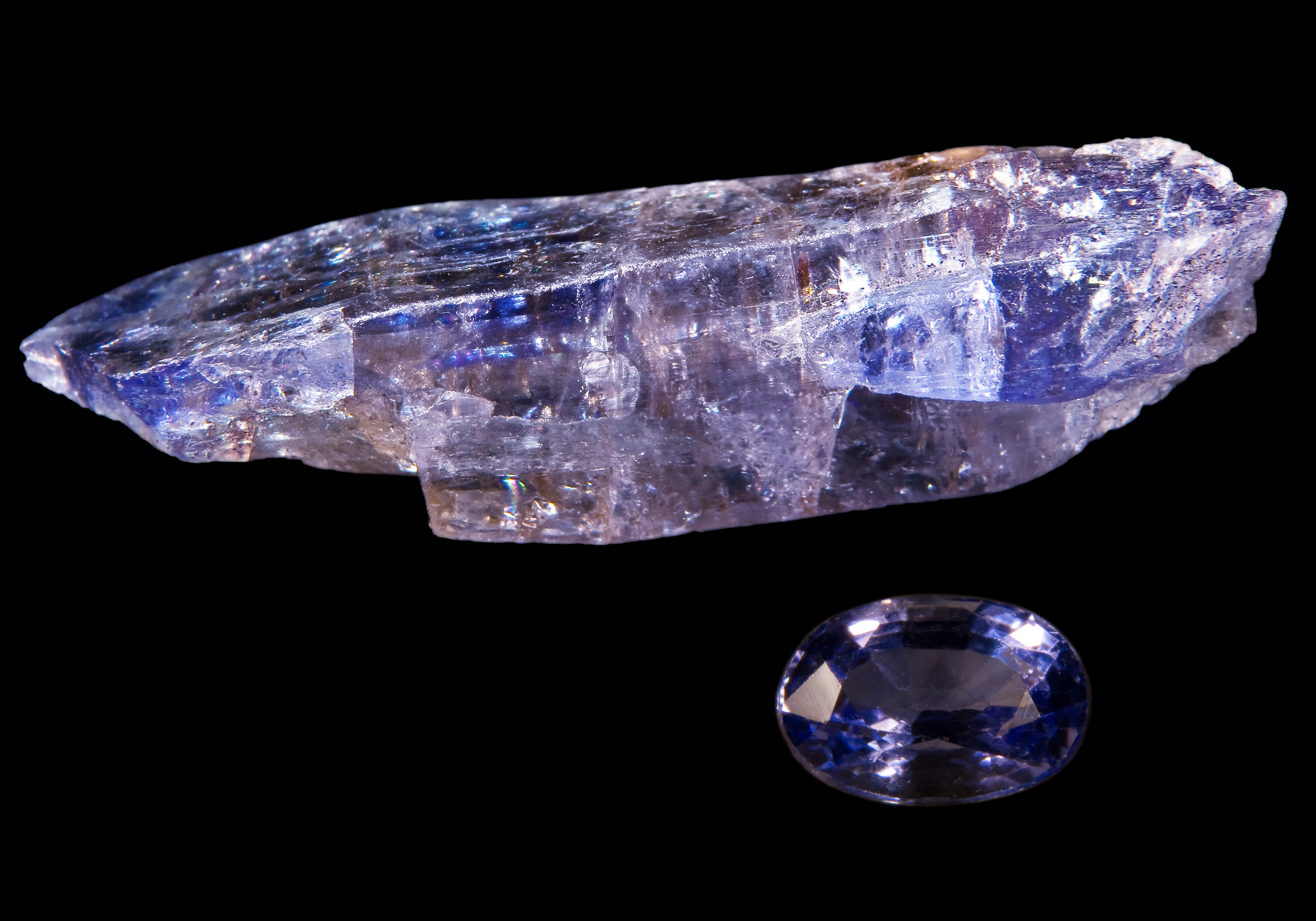 Tanzanite (Zoisite) rough stone and cut stone Locality : C-Block Mine, Merelani Hills (Mererani), Lelatema Mts, Arusha Tanzania